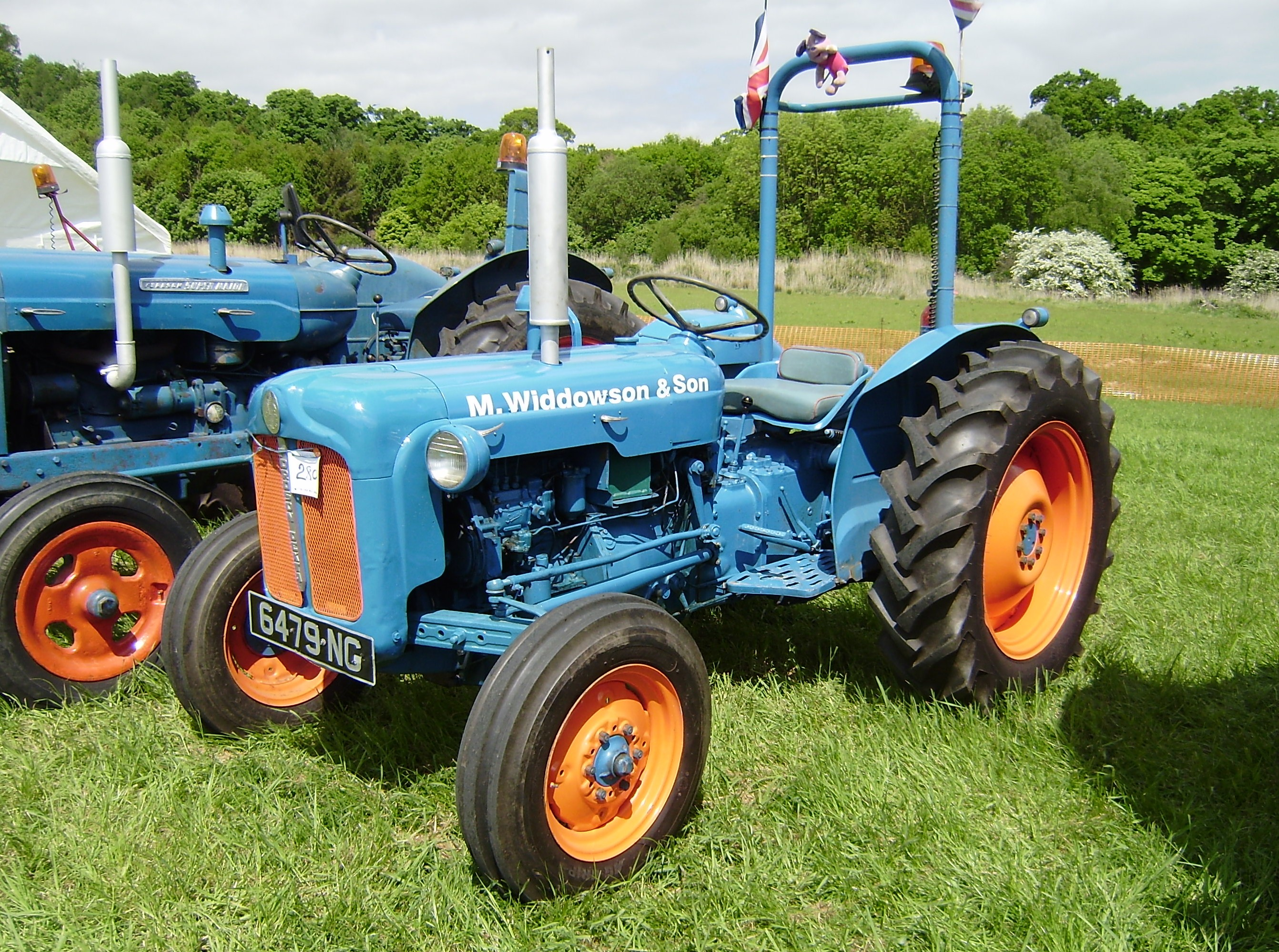 Fordson Dexta tractor with ROPS bar retro-fitted, seen at Belvoir Castle Show 2008; Fordson Super Major on the left